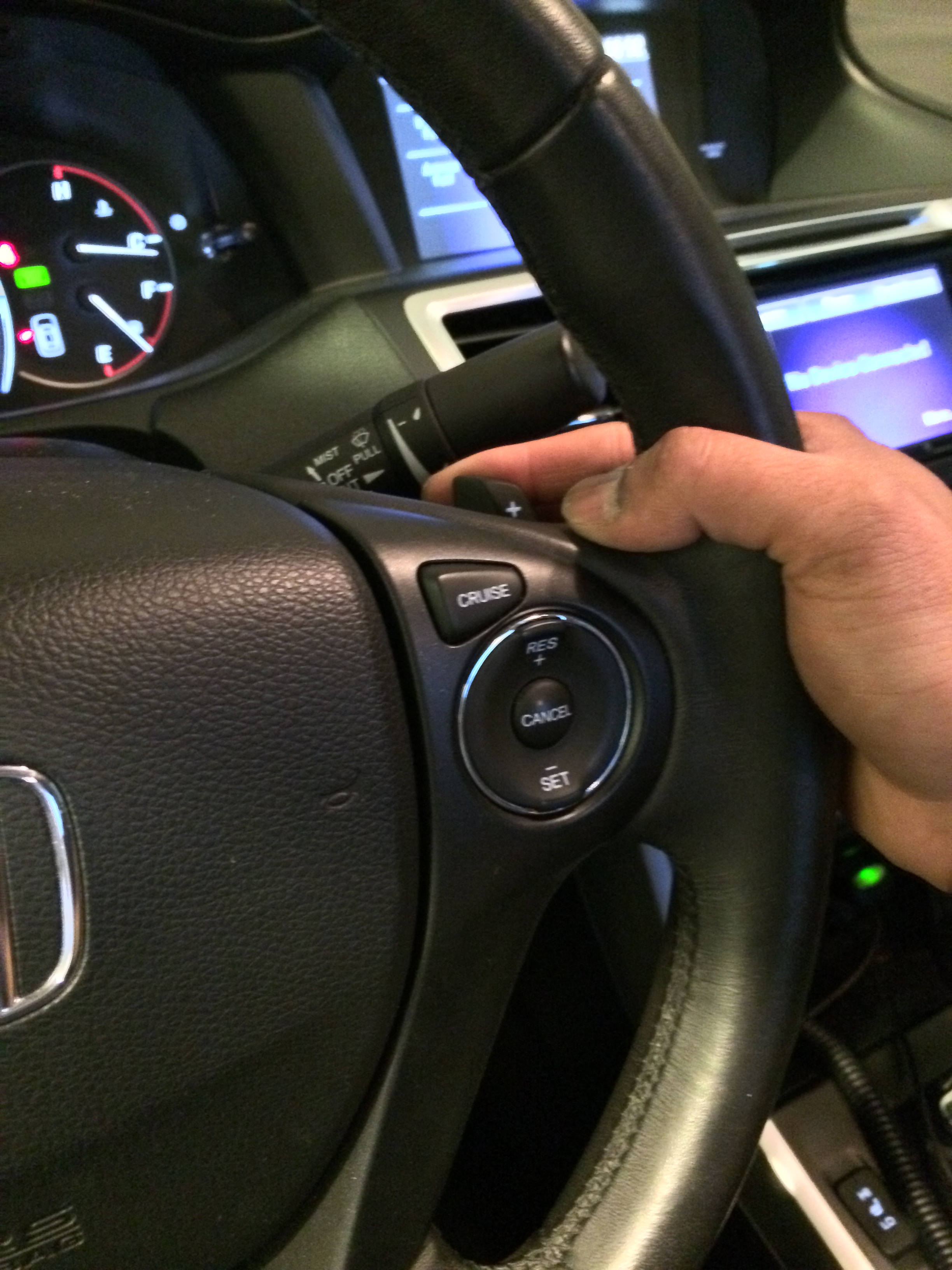 Paddle shifter (upshift paddle) being actuated by the driver in a 2013 Honda Accord EX coupe with a continuously variable transmission.